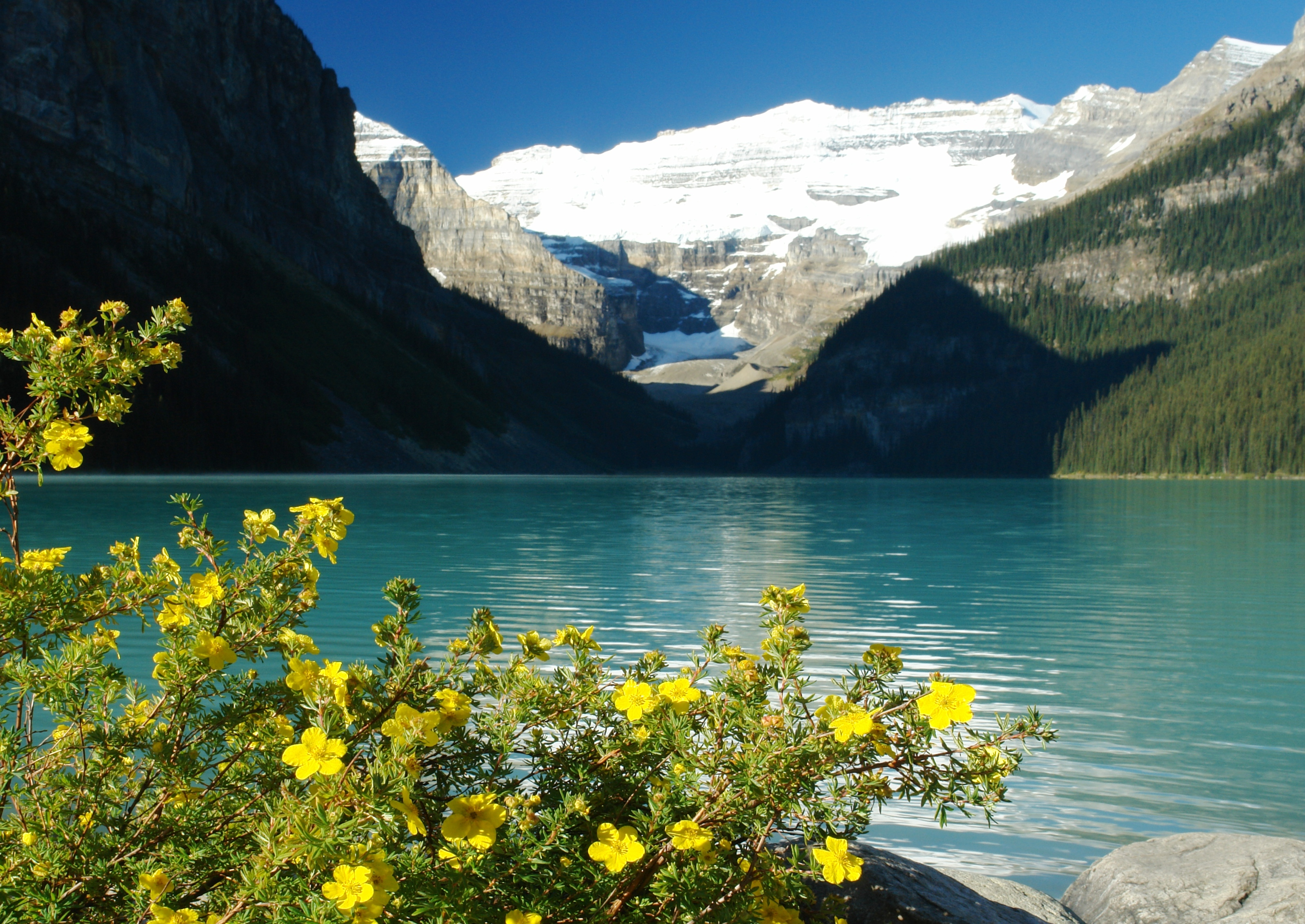 Dasiphora fruticosa (Shrubby Cinquefoil) and Lake Louise in Alberta, Canada